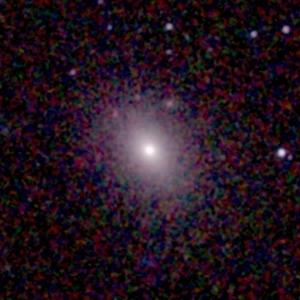 Galaxy NGC 410